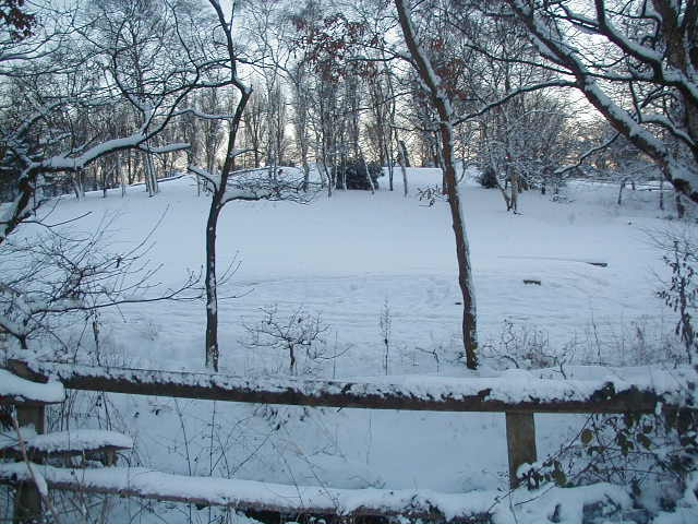 Snowy Sutton Park, golf area, 2000-12-28